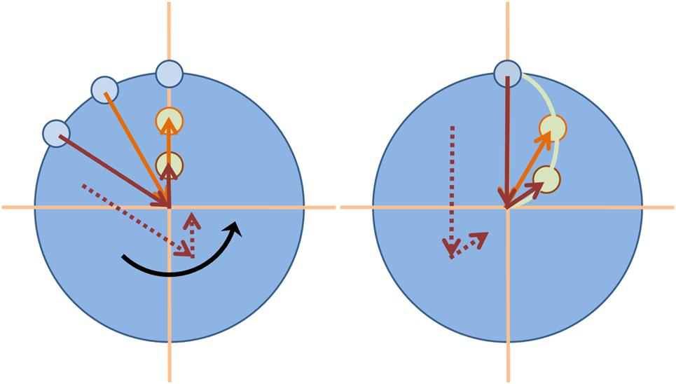 Trajectories of a tossed ball as seen by the stationary and the rotating observer